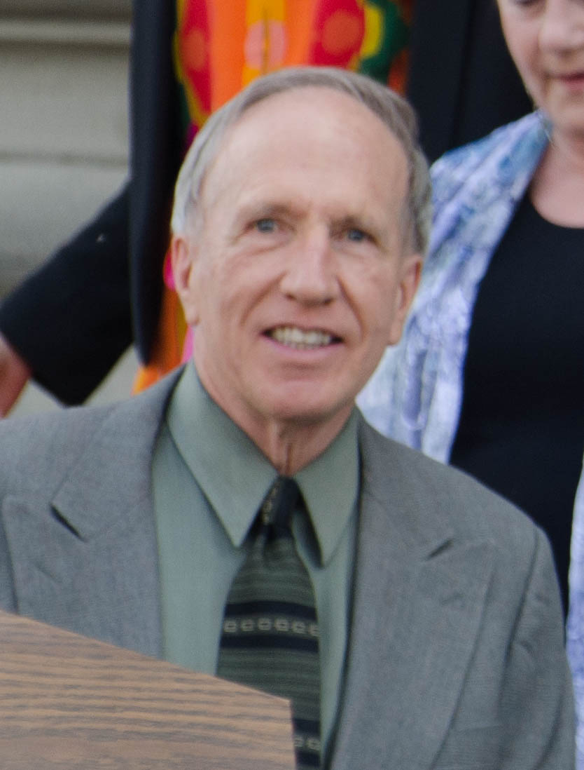 Bruce Hinkley at the 2015 Alberta Premier/Cabinet swearing-in ceremony, by Connor Mah.